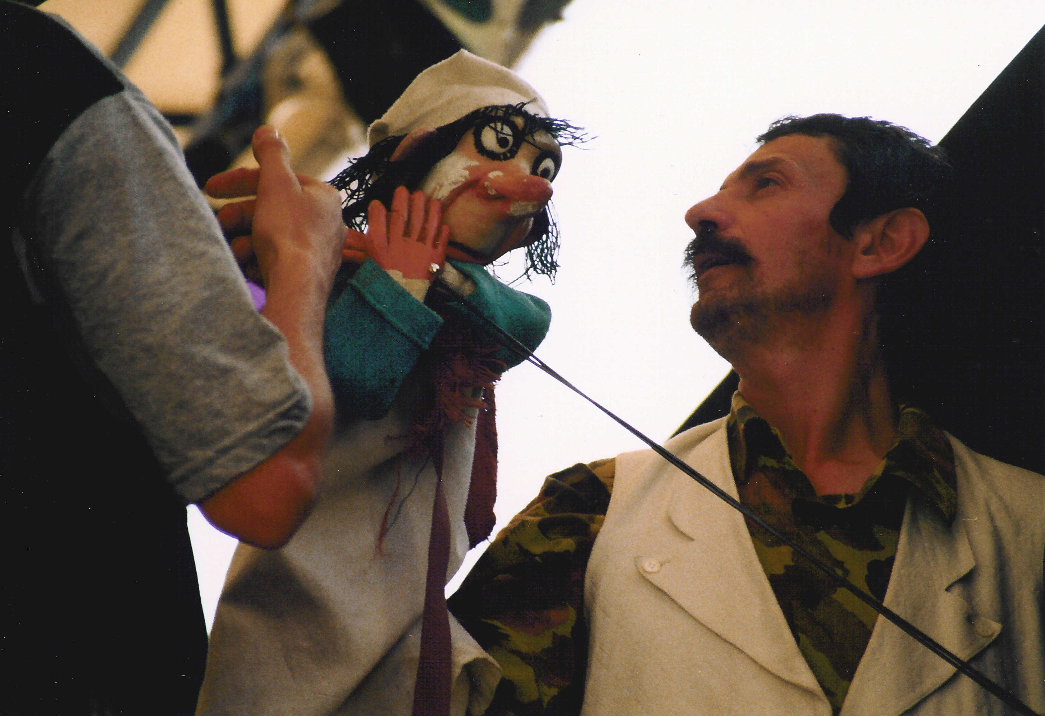 Puppeteer performing "The Brementown Musicians", Piaţa Mare (Large Square), Sibiu, Romania.